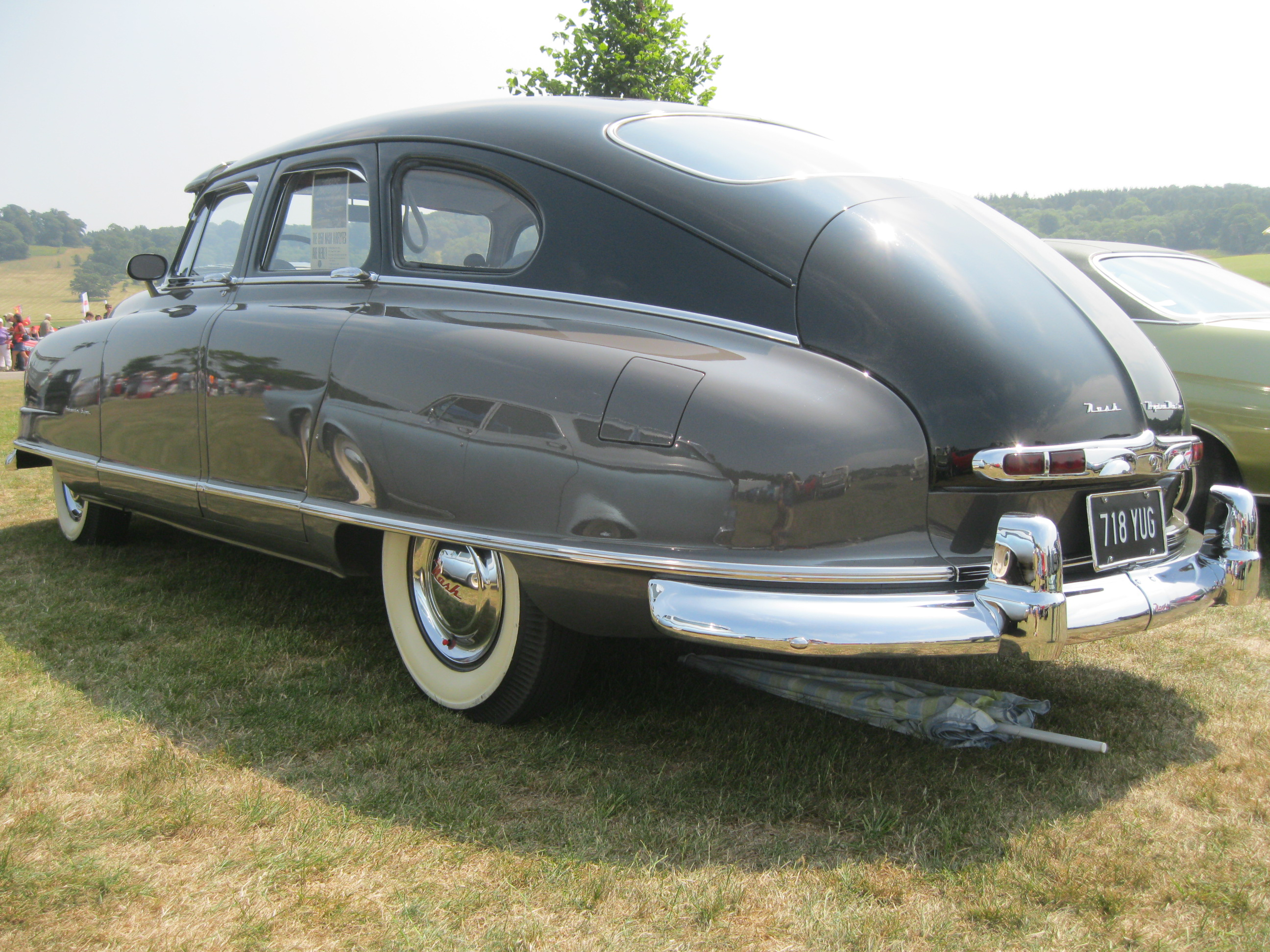 Stunning post-war U.S. streamliner spotted at the Sherborne Castle Classic Car Show on 21st July 2013.